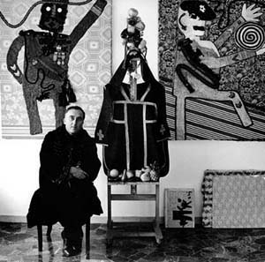 Enrico Baj